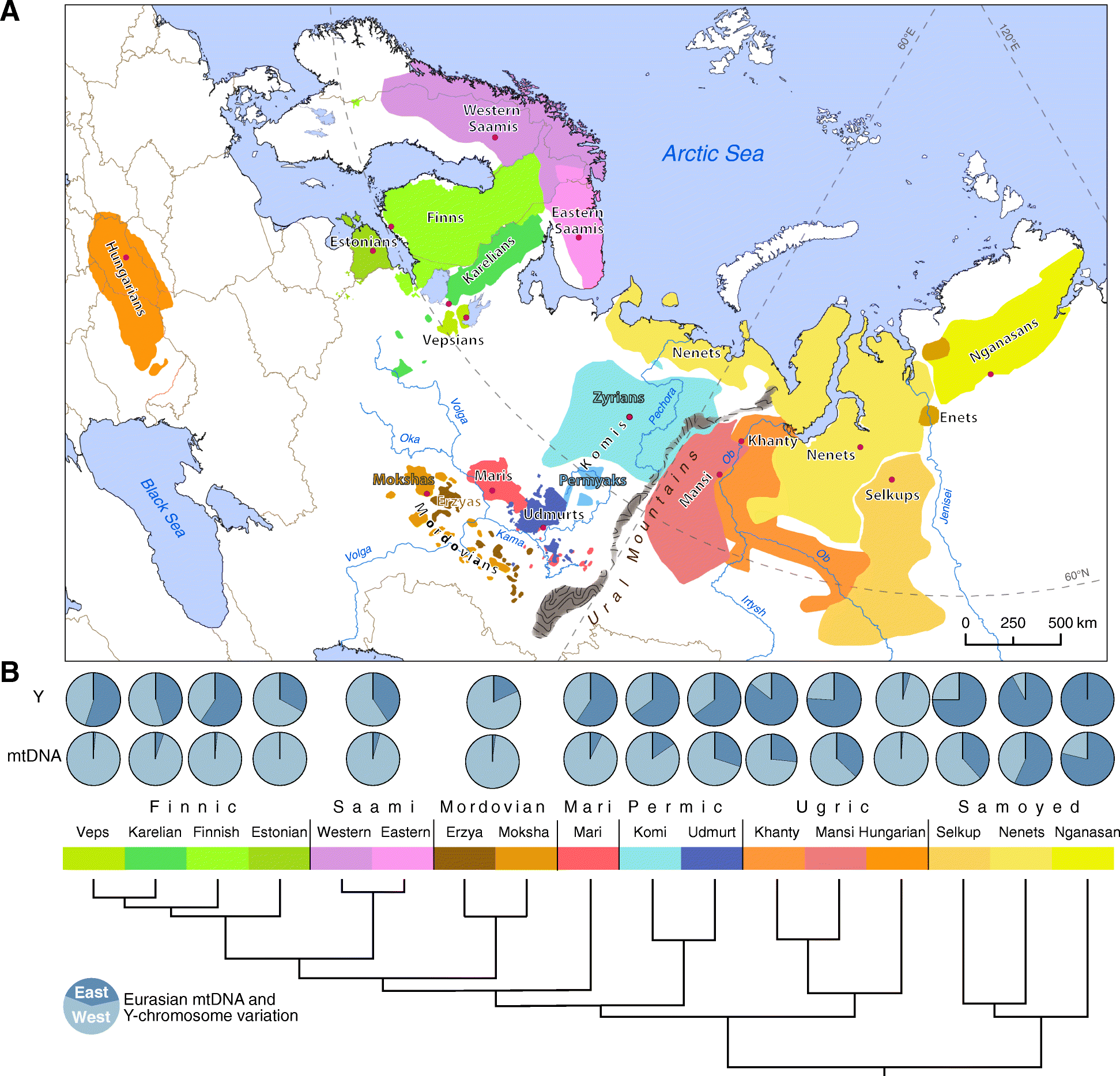 Geographic distribution of the Uralic-speaking populations and the schematic tree of the Uralic languages. a The geographic spread of the Uralic-speaking populations. Colour coding corresponds to the respective language in panel b. b Schematic representation of the phylogeny of the Uralic languages. Pie diagrams indicate the relative share of West and East Eurasian mitochondrial (mtDNA) and Y chromosomal (Y) lineages. Data from Additional file 5: Table S4 and Additional file 6: Table S5